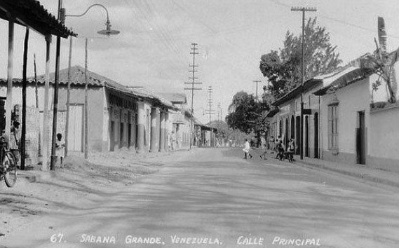 Pueblo Sabana Grande Caracas, primeras decadas del siglo XX